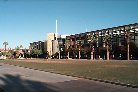 The University of Arizona Student Union.